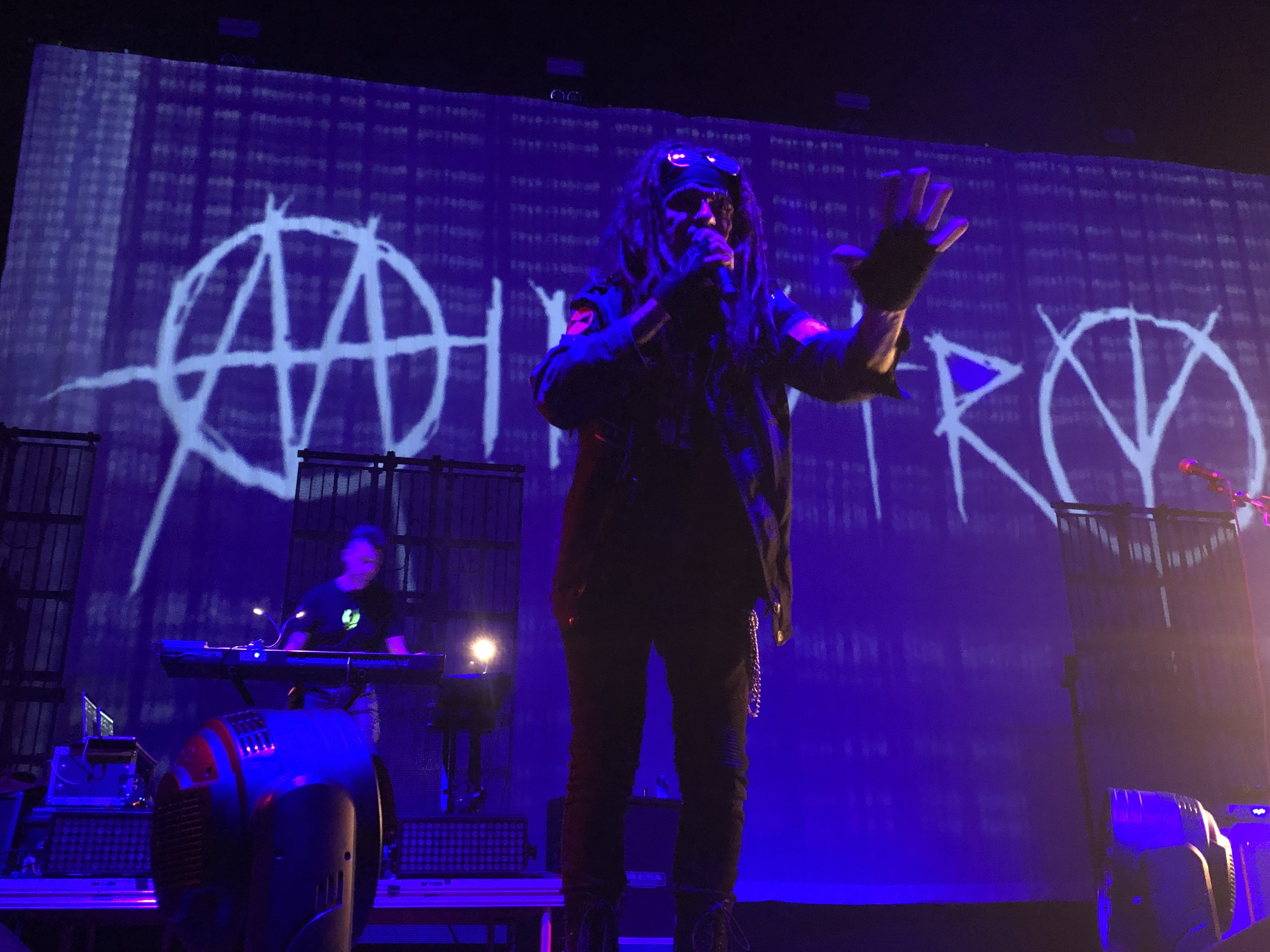 Live at The Forum, Los Angeles 2019